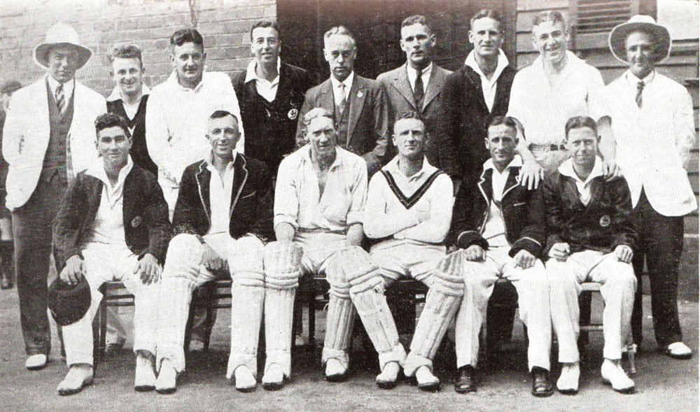 Photograph of the Tasmanian team that played the South Africans in Hobart in January 1932. Standing, left to right: W.T. Lonergan (umpire), Gerald James, Rex Townley, Owen Burrows, D.G Hickman (manager), Gordon Gibson (12th man), Les Richardson, Laurie Nash, M. Leonard (umpire). Seated: Jack Badcock, Alf Rushforth, Jim Atkinson (captain), Doug Green, Cyril Parry, Ron Morrisby.